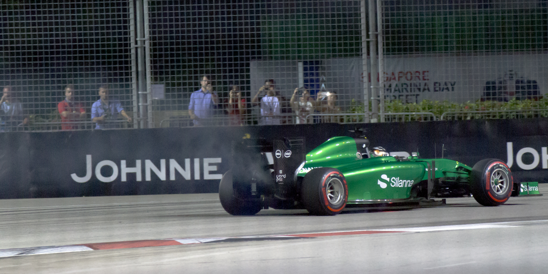 Formula One 2014 Rd.14 Singapore GP: Kamui Kobayashi (Caterham), an engine failure.